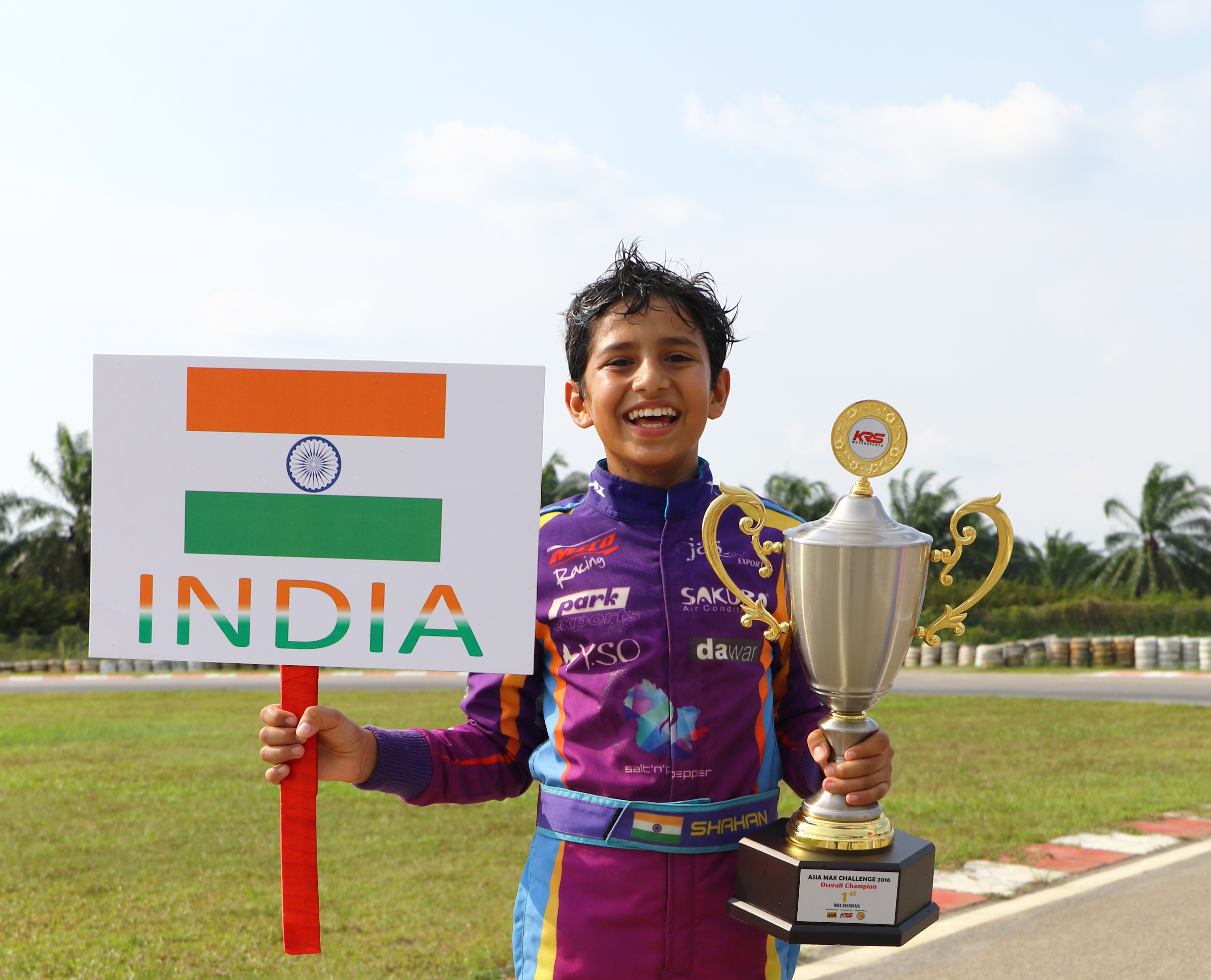 Shahan Ali Mohsin holding the 2016 Asia Max Championship Trophy.